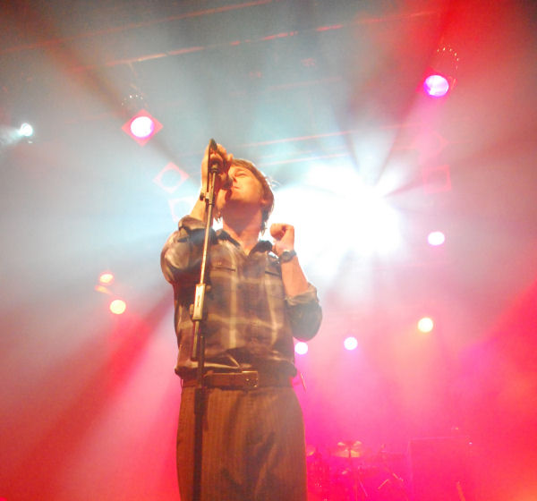 China Crisis in Concert Taken at a recent China Crisis Concert at Pacific Road, Birkenhead, Wirral, Merseyside. For such a small concert venue it has seen the likes of Midge Ure, Howard Jones, Black (Colin Vearncoombe), The Christians, Ricky Tomlinson, Journey South and Duncan Norvelle (is he still alive?) to name but a few. I have to admit I wasn't a big fan of CC in the 80's as there were so many great bands around at the time. As official photographer for the event I managed to get a great spec ahead of the crowd.